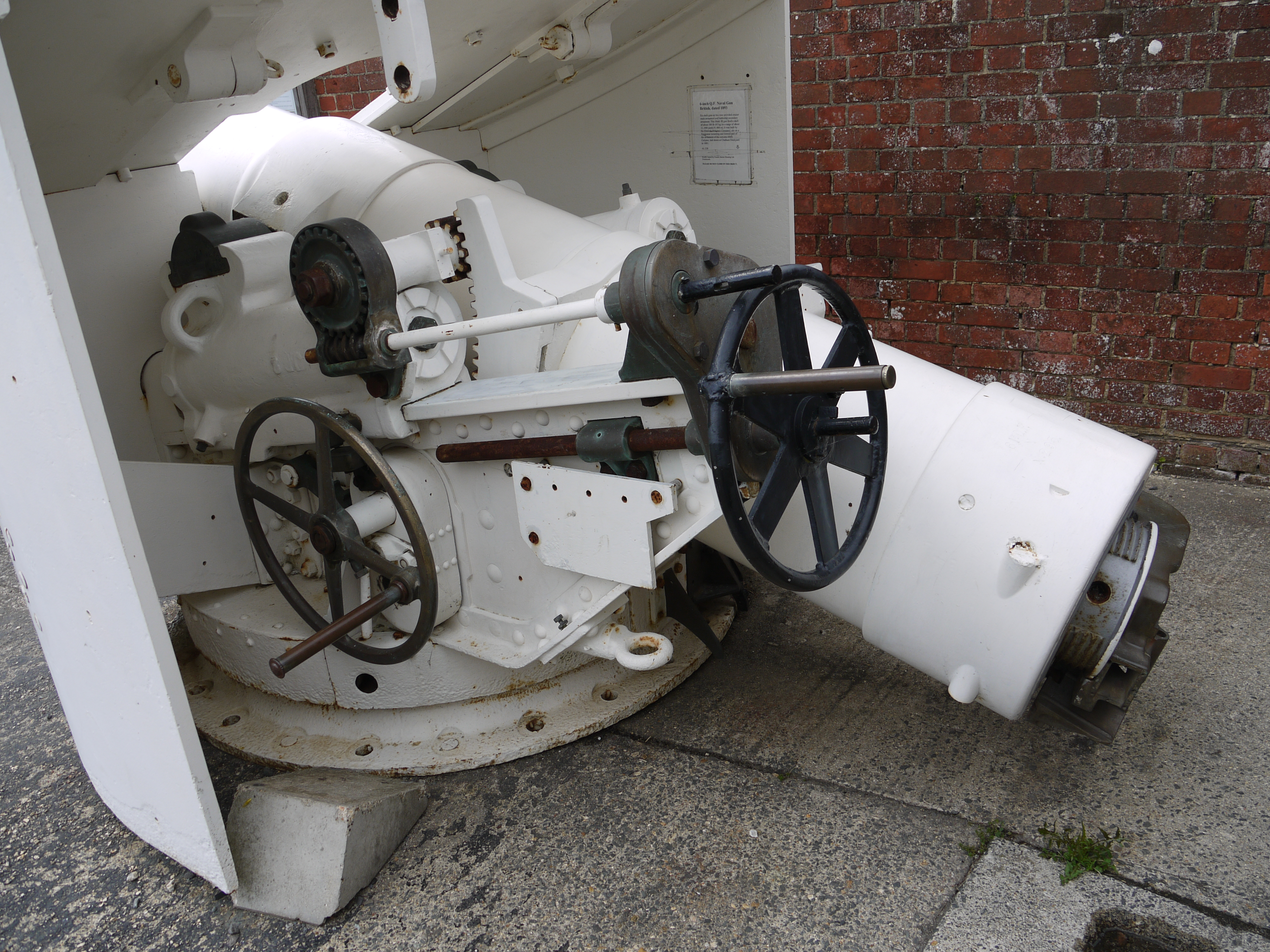 Photo of the rear of a QF 6 inch Mk III naval gun on Vavasseur recoil mounting, at Royal Armouries, Fort Nelson. For front left view see File:6 inch gun from HMS Calypso.jpg